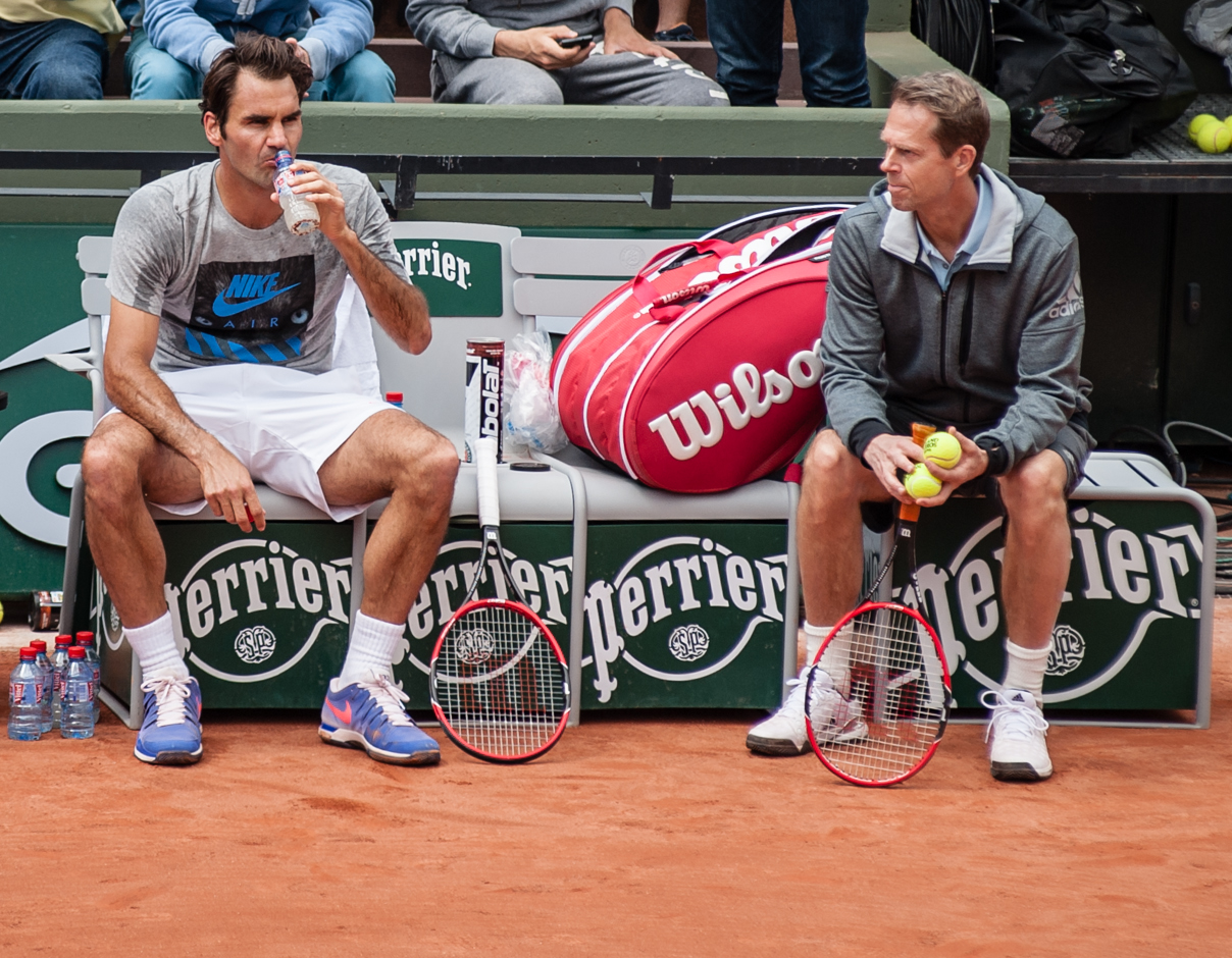 Federer and coach Edberg at the French_Open_2015